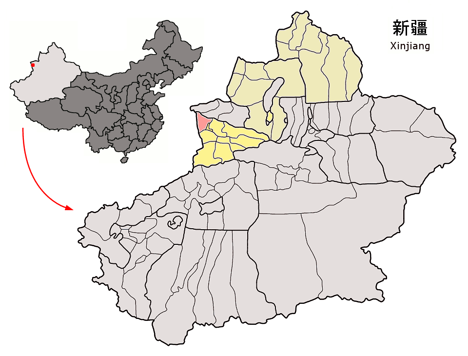 Location of Huocheng County (pink) and Ili Prefecture (yellow: subdivisions under direct administration of Ili Prefecture, ecru: subdivisions under administration of Tacheng and Altay Prefectures) within Xinjiang autonomous region of China Map drawn in september 2007 using various sources, mainly : Xinjiang Uygur autonomous region administrative regions GIS data: 1:1M, County level, 1990 Xinjiang Counties map from